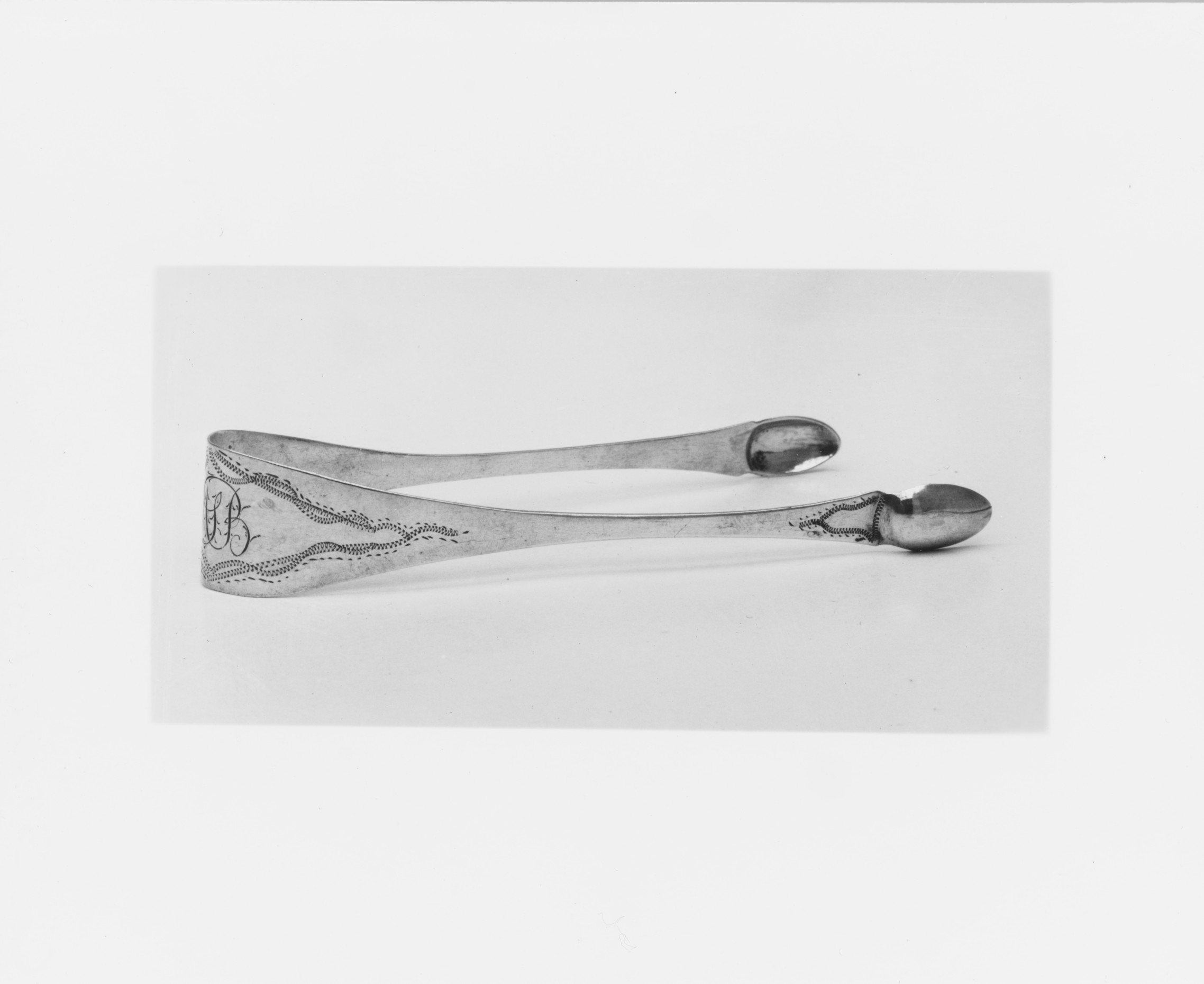 American; Tongs; Silver